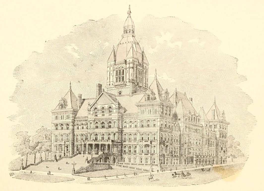 A sketch of the New York State Capitol